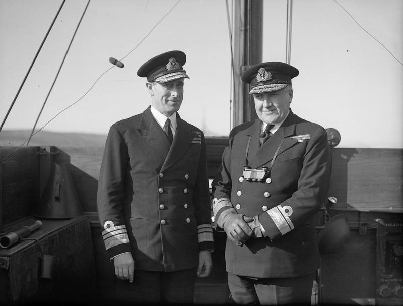 Chief of Combined Operations on Visit of Inspection. 6 March 1943, at HMS Armadilla and HMS Pascoe, Lord Louis Mountbatten Chief of Combined Operations Inspect Units of His Command. Vice Admiral Lord Louis Mountbatten(left) and Rear Admiral T Toubridge, Flag Officer Force W, on the bridge of HMS SISTER ANNE, a ship of the Combined Operations Command.